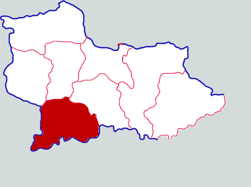 Location of Zhecheng county in Shangqiu city, China